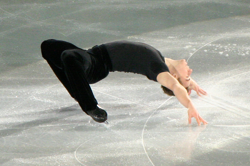 Shawn Sawyer performs a cantilever during the exhibition at the 2006 Skate Canada International